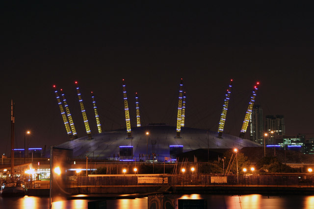 O2 Arena View of the O2 Arena at night as seen from Royal Victoria Dock.